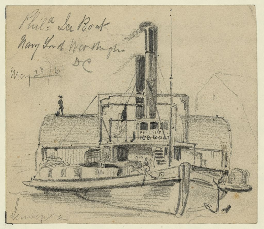 Pencil drawing shows the U.S.S. Ice Boat docked at the Washington Navy Yard, May 23, 1861. Date Created/Published: 1861 May 23. Picture of the Civil War provided by Library of Congress. Original medium: 1 drawing on cream paper : pencil ; 10.5 x 12.0 cm.